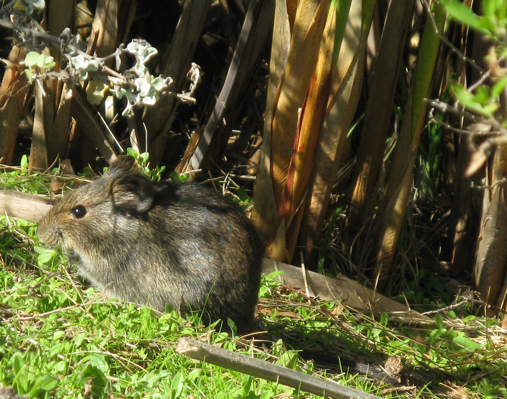 The Southern African Vlei rat, a large specimen photographed in daylight, grazing on clover on lawn beside Cyperus papyrus on the edge of a dam.